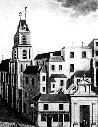 An image of the church of Saint-Étienne-des-Grès, Paris